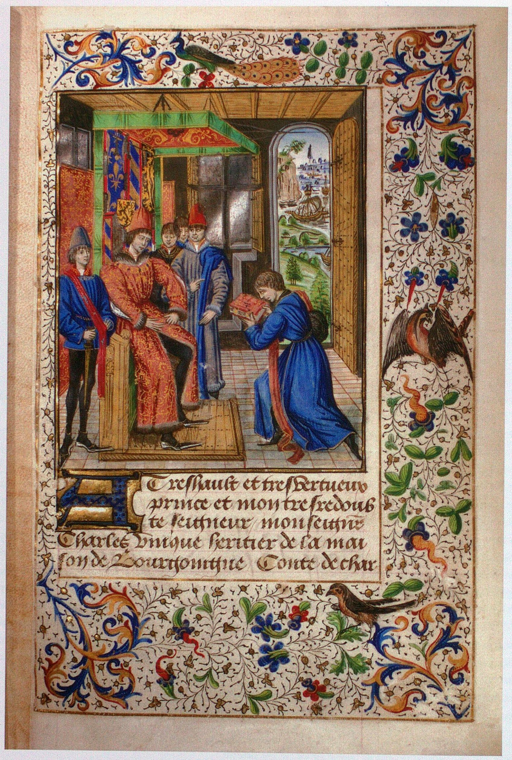 Charles Soillot presents his French translation of Xenophon’s „Hiero“ to Charles the Bold, Duke of Burgundy. Miniature in the dedication copy for the duke, the manuscript Brussels, Royal Library, Ms. IV 1264, fol. 1r.